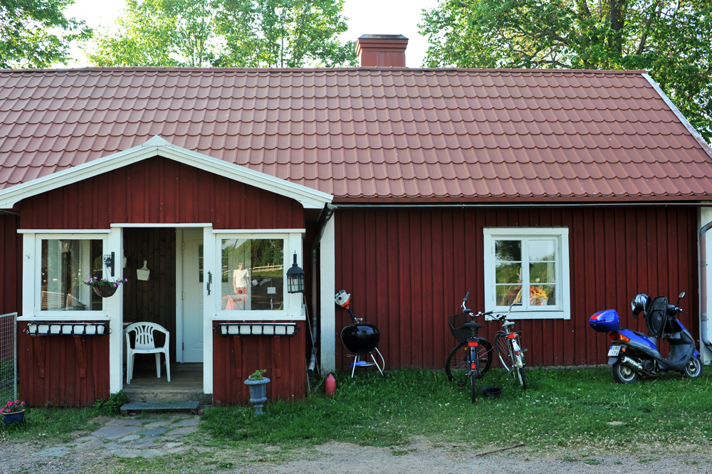 The house of Stig Dagerman in Älvkarleby, Sweden.